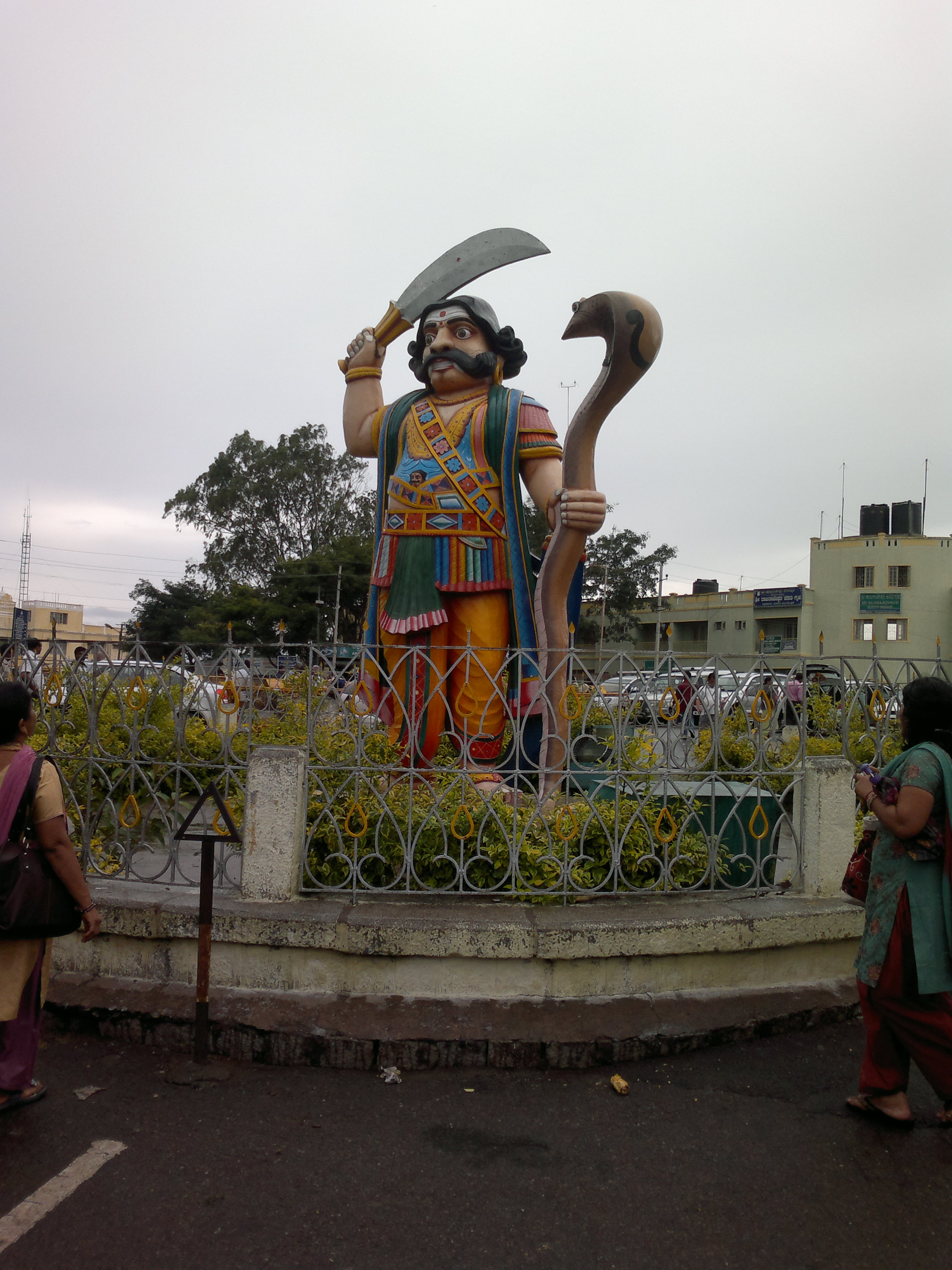 The Palace of Mysore (Kannada: ಮೈಸೂರು ಅರಮನೆ) is a palace situated in the city of Mysore, state of Karnataka in southern India.